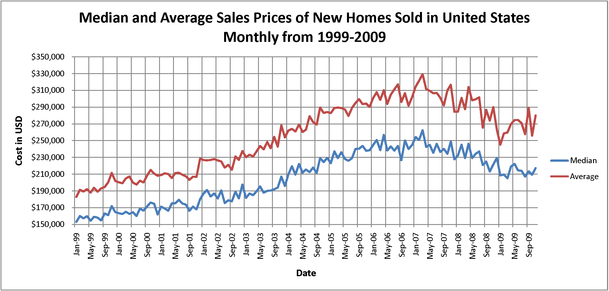 A graph showing the "Median and Average Sales Prices of New Homes Sold in United States". It shows the monthly data from 1999 through 2009. It should be noted that the sales price includes the land. This graph is made using the data from. The graph was made in excel.